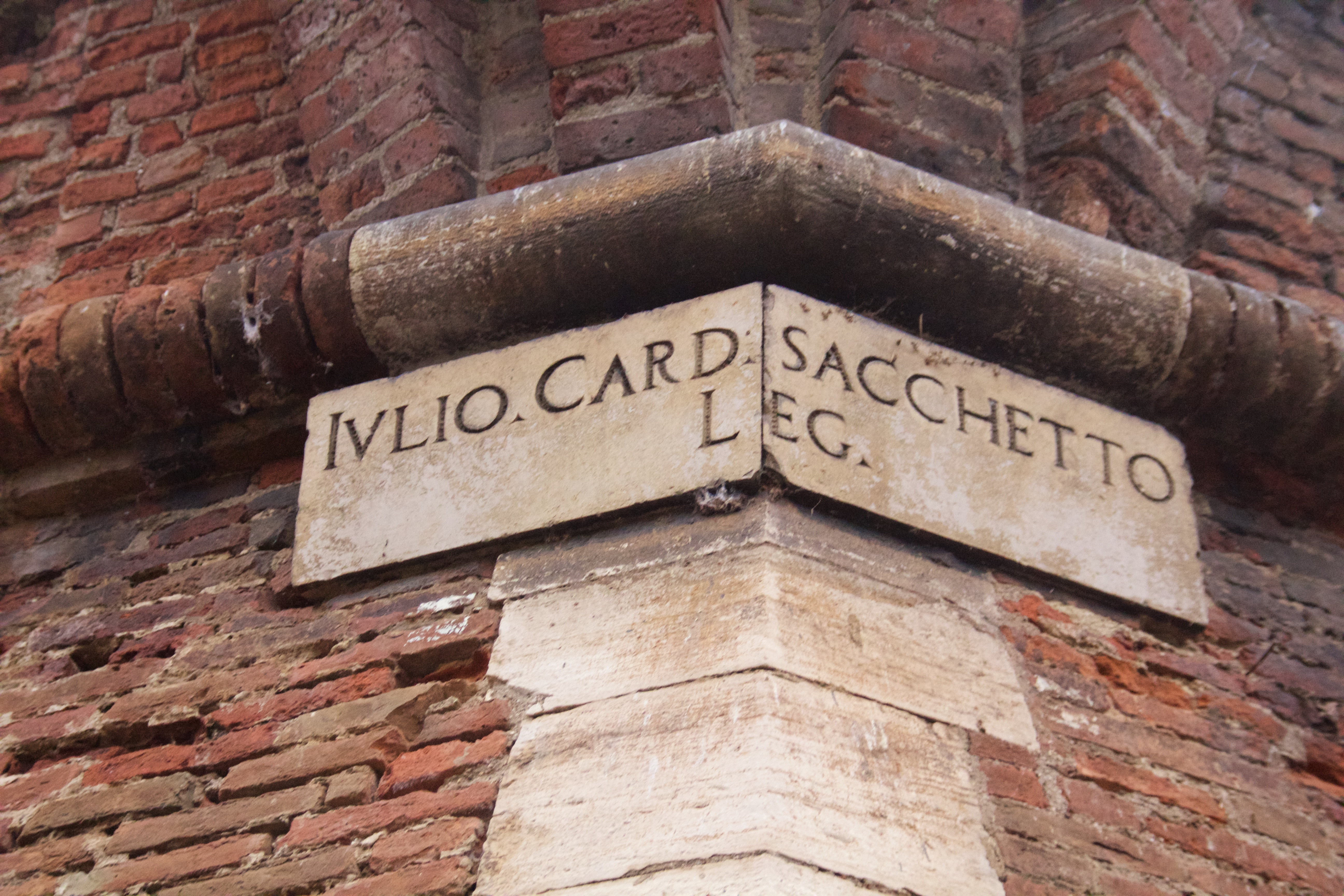 City walls, Ferrara, Italy